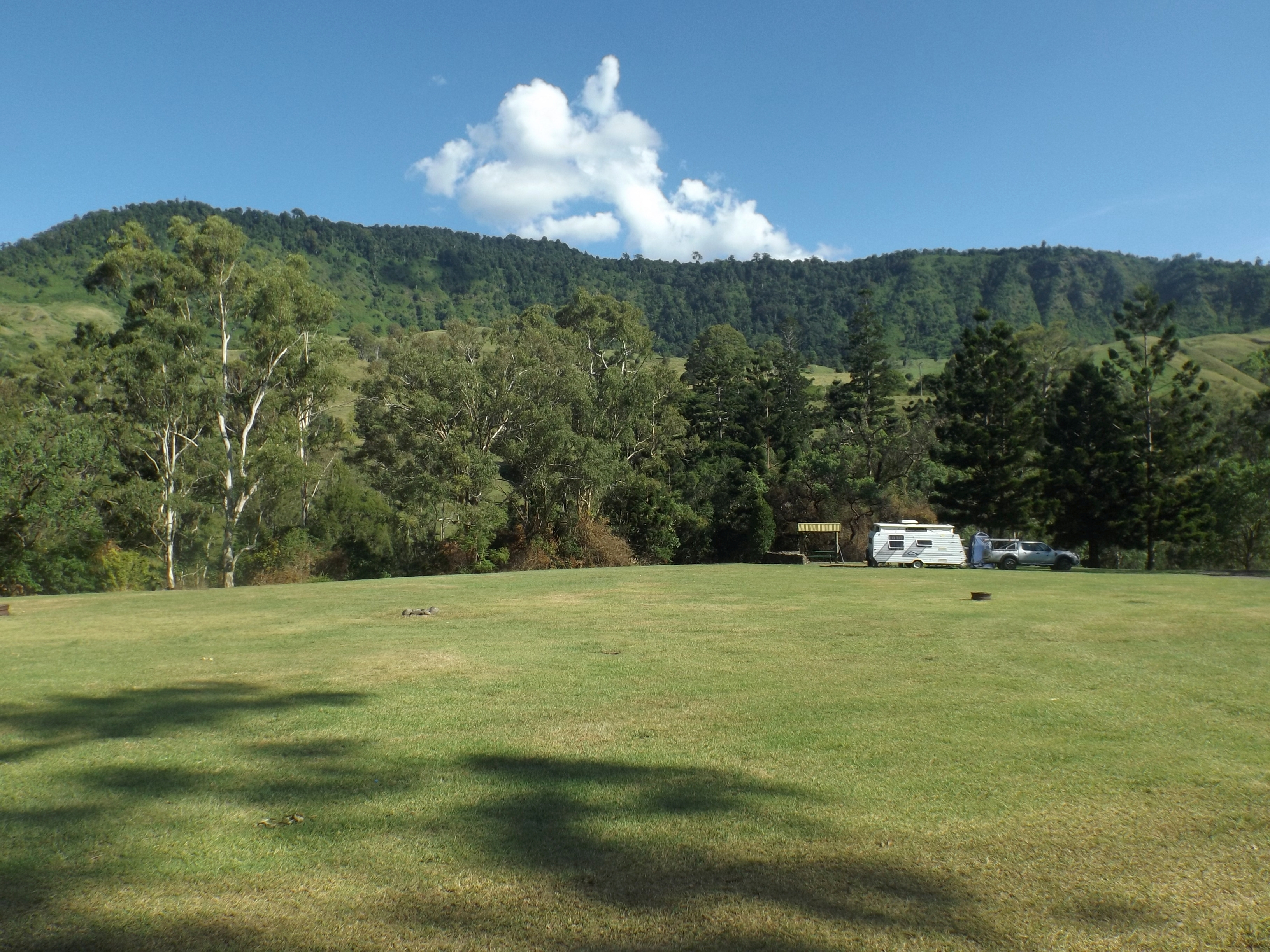 Photo of caravan at Andrew Drynan Park and McPherson Range at Running Creek, Scenic Rim Region, Queensland, Australia.